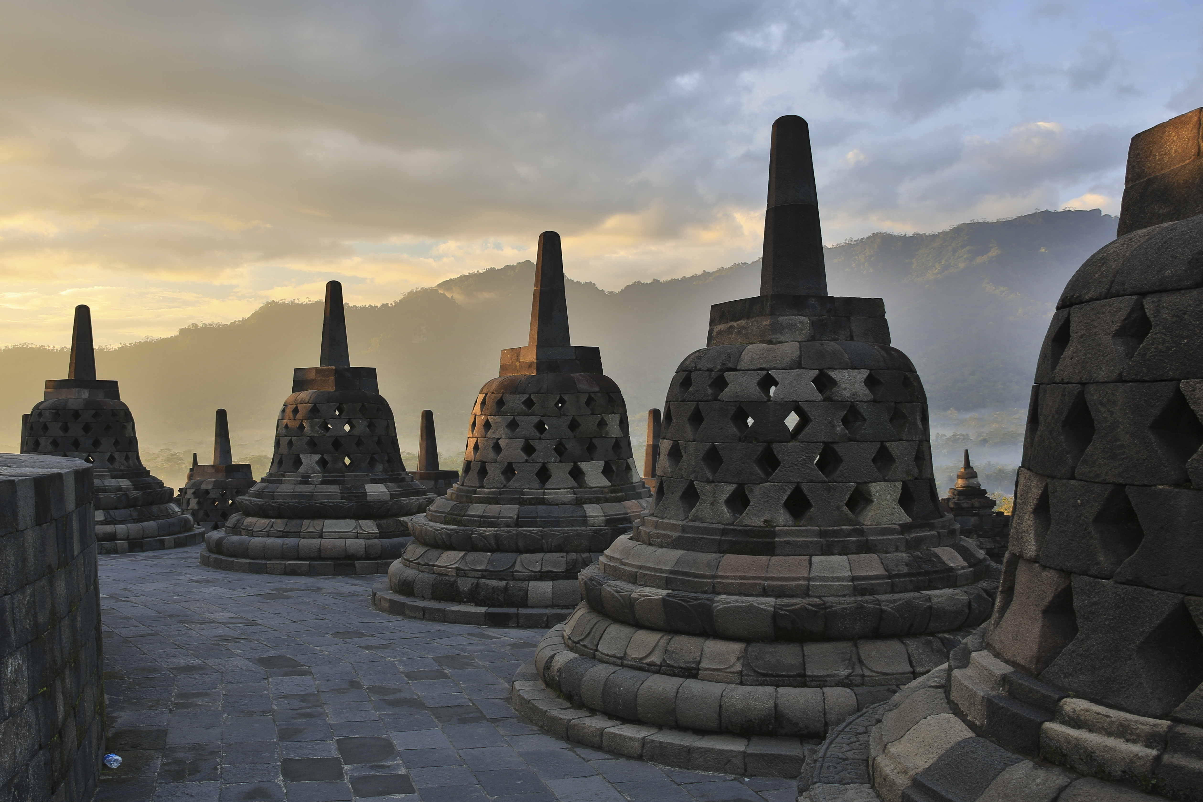 Borobudur temple Park, Indonesia: Perforated Stupas .